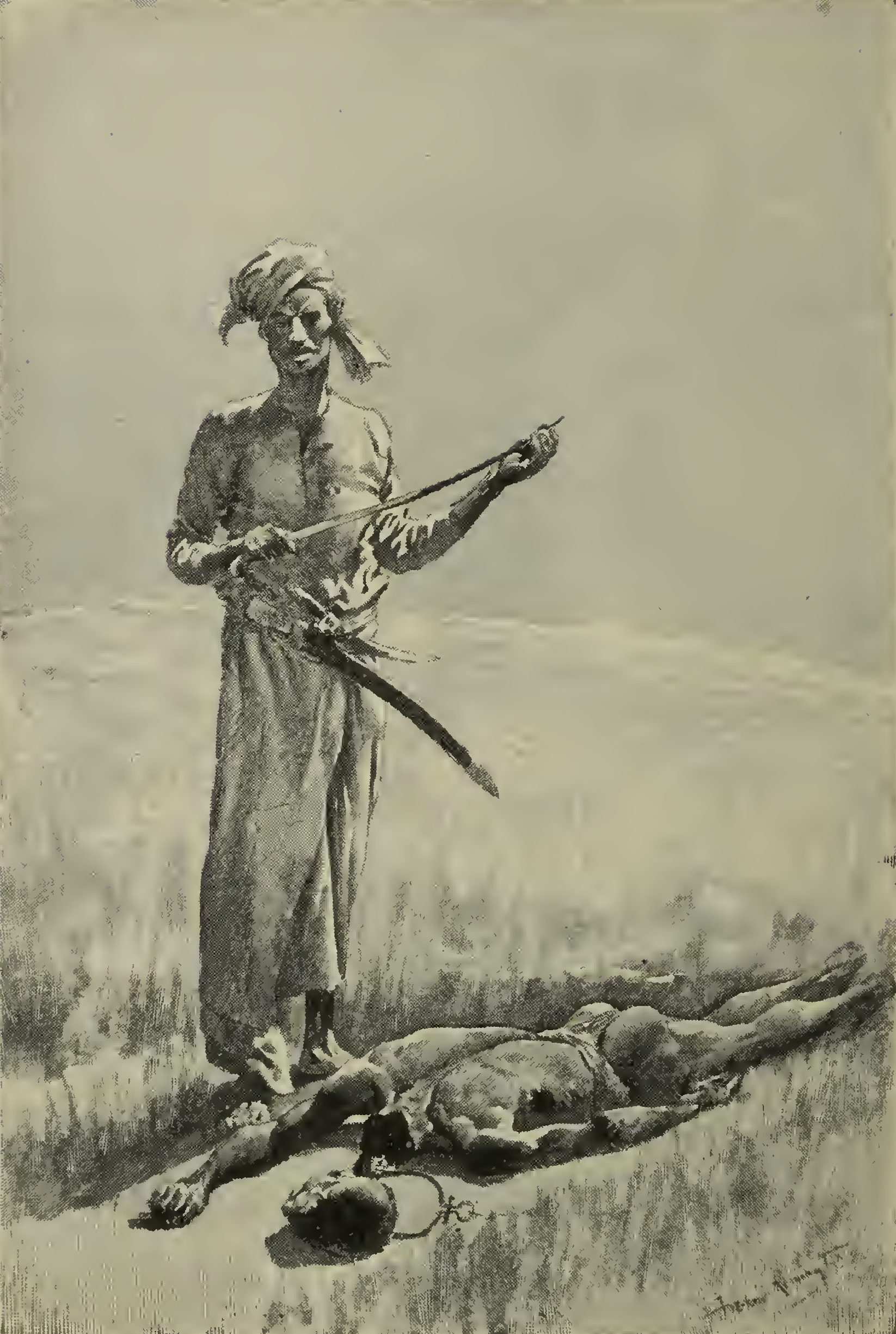 "In the Rear of a Caravan", frontispiece of the book "Slavery and the Slave Trade in Africa", by Henry Morton Stanley, published in 1893. Illustration by Frederic Remington